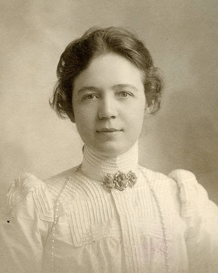 Rose Melville, stage actress Subjects: actresses